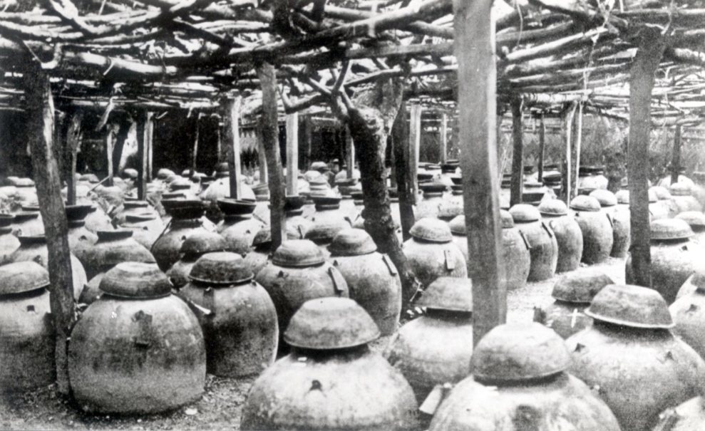 Jars of moromi, awamori production, Okinawa, Japan